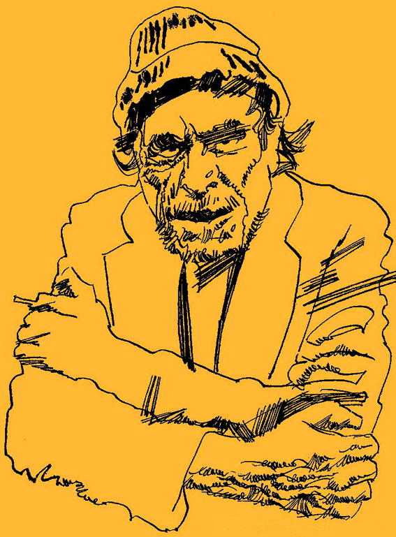 Charles Bukowski, portrait by italian artist Graziano Origa, pen&ink+pantone, 2008